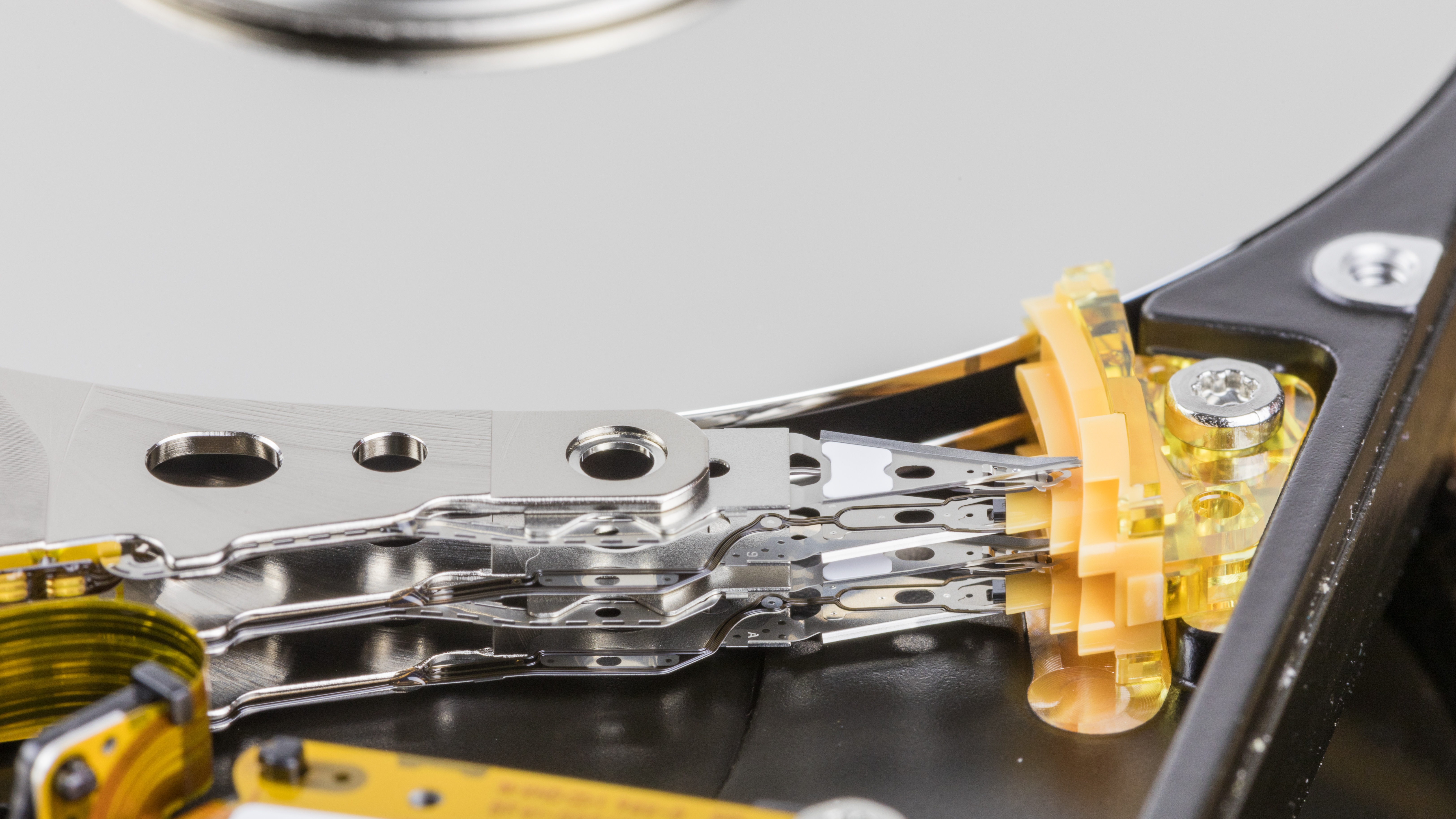 Samsung ST500LM011 - hard disk head